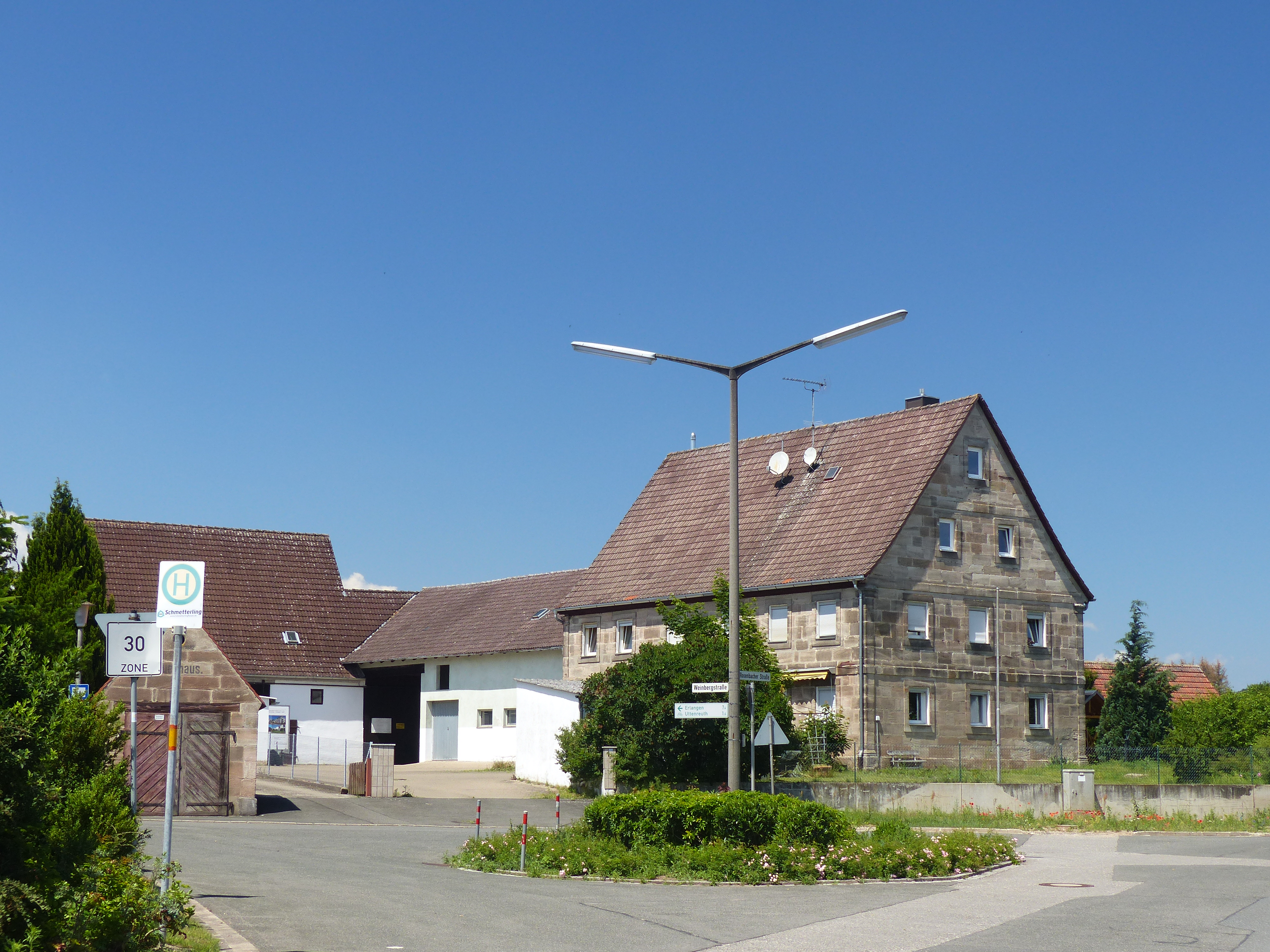 The village Weiher, a district of the municipality of Uttenreuth